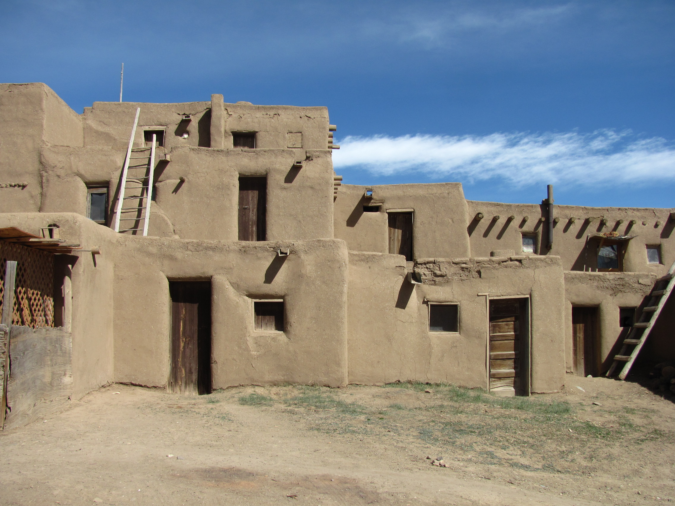 Detail, Taos Pueblo New Mexico